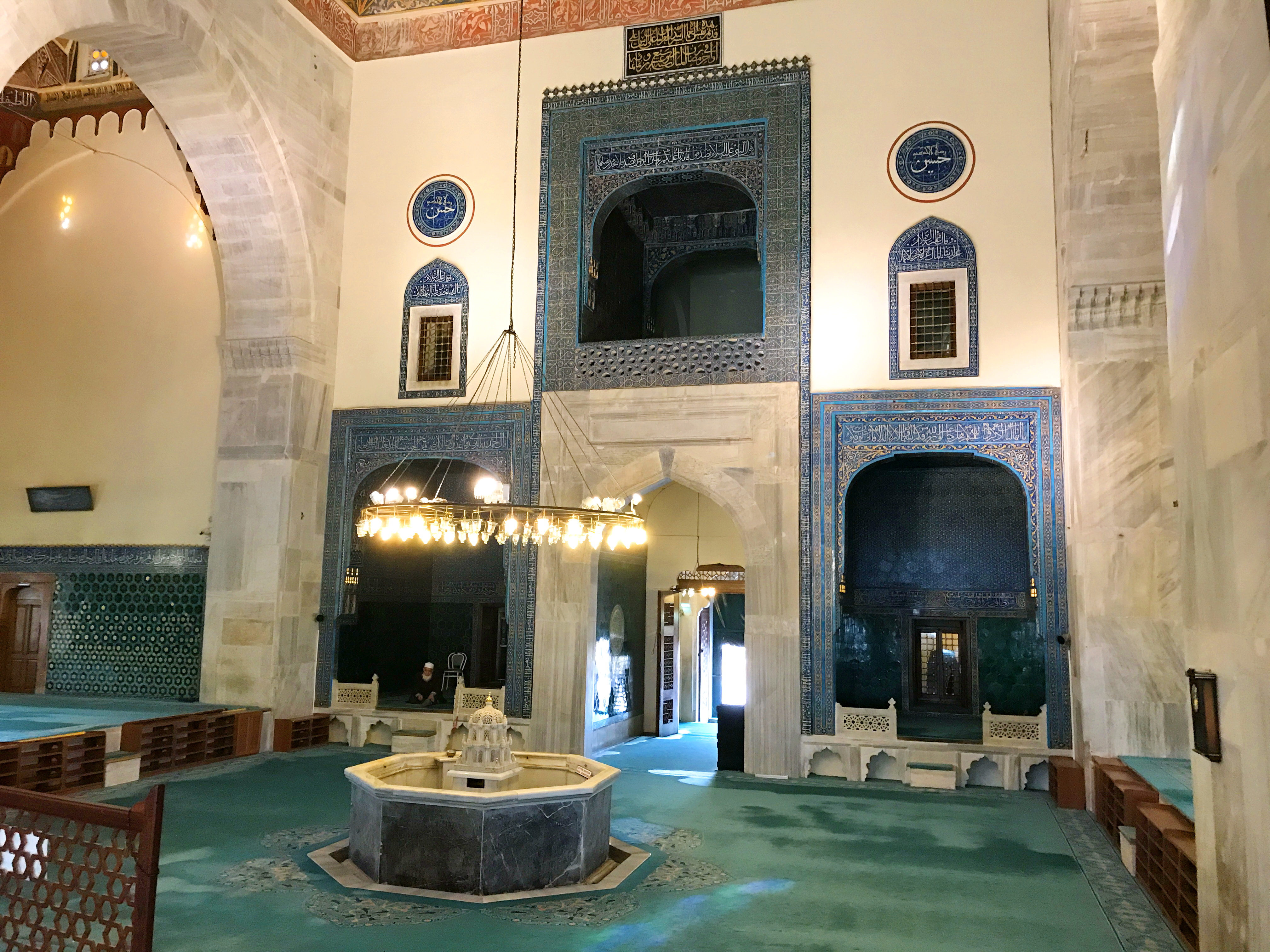 Green Mosque of Bursa, Turkey, 2017. Green Mosque (Turkish: Yeşil Camii, "Yeşil Mosque"), also known as Mosque of Sultan Mehmed I, is a part of the larger complex (a külliye) located on the east side of Bursa, Turkey, the former capital of the Ottoman Turks before they captured Constantinople in 1453. The complex consists of a mosque, türbe, madrasah, kitchen and bath.